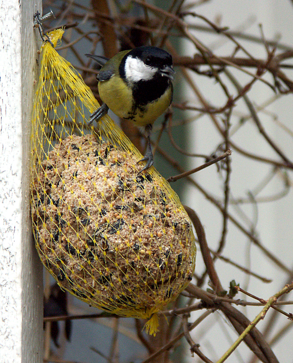 Great tit (Parus major) feeding by a Swedish house.